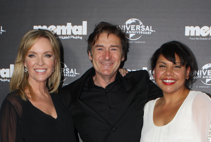 Mental movie premiere at Event Cinemas, Sydney, Australia This evening 'Mental' enjoyed its Australian movie premiere at Event Cinemas, George St, Sydney. The weather was wet outside, but the atmosphere was warmish inside, as Sydney enjoyed yet another red carpet event. Australian filmmaker PJ Hogan reunites with his "Muriel’s Wedding" star Toni Collette with Liev Schreiber, Anthony LaPaglia and Rebecca Gibney. Plot... A charismatic, crazy hothead transforms a family's life when she becomes the nanny of five girls. Director: P.J. Hogan Writer: P.J. Hogan Stars: Liev Schreiber, Toni Collette and Caroline Goodall Websites Mental official website Universal Pictures Australia Event Cinemas Eva Rinaldi Photography Eva Rinaldi Photography Flickr Music News Australia